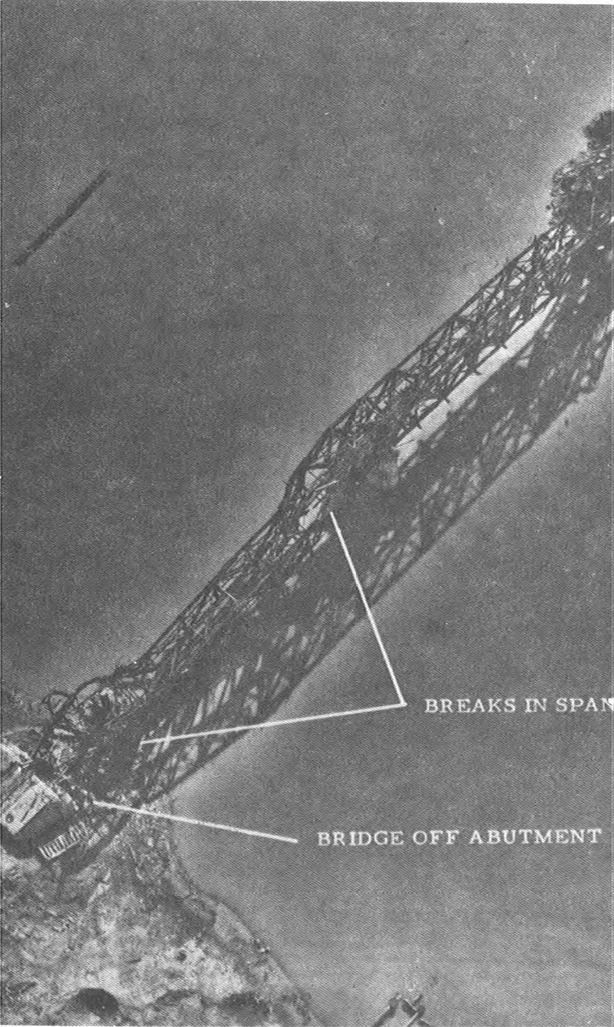 Close-up of the destroyed Thanh Hoa Bridge after bombing by the Air Force.